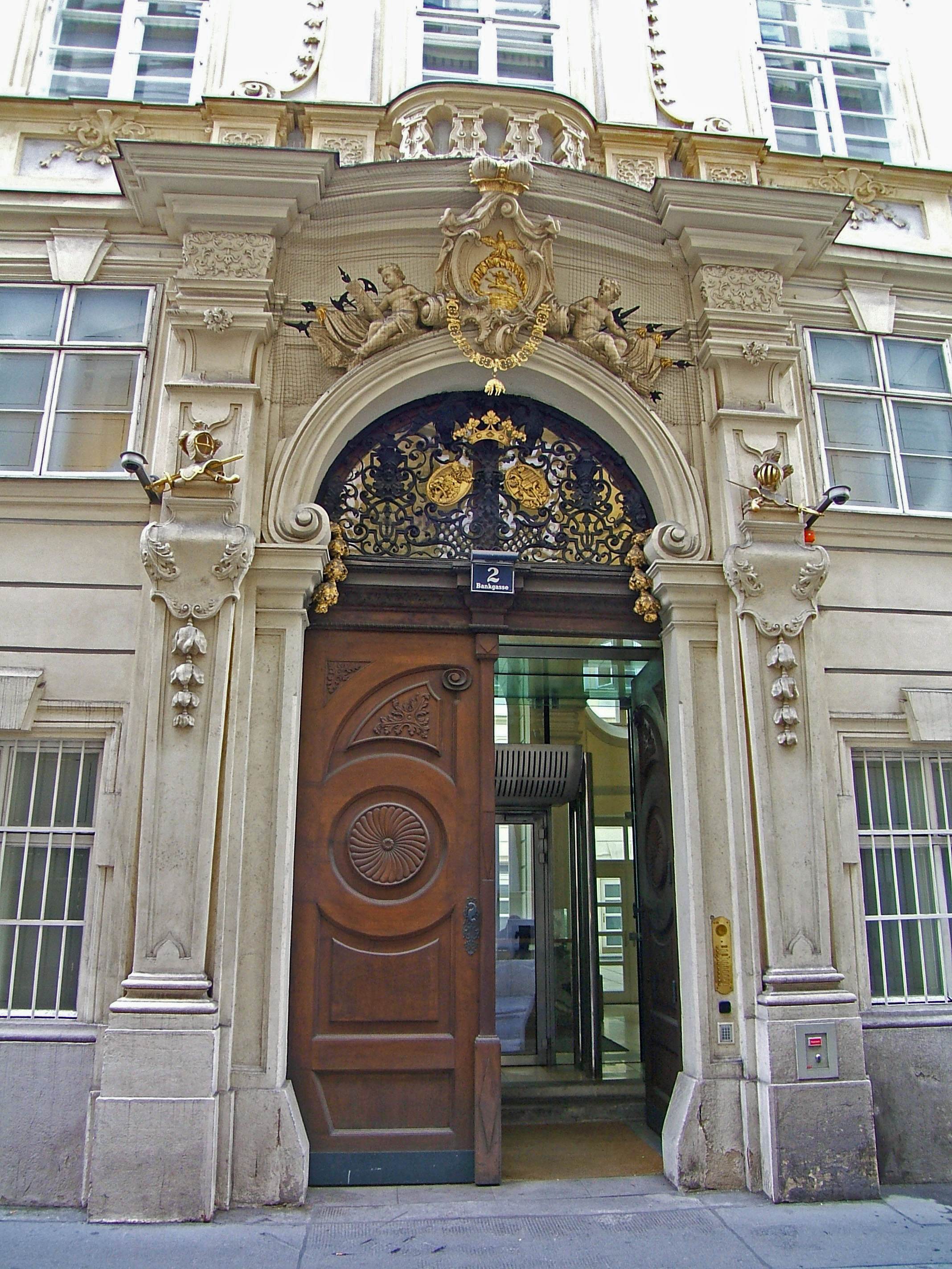 Portal of palais Batthyány-Strattmann in Vienna, 1st district, Bankgasse 2